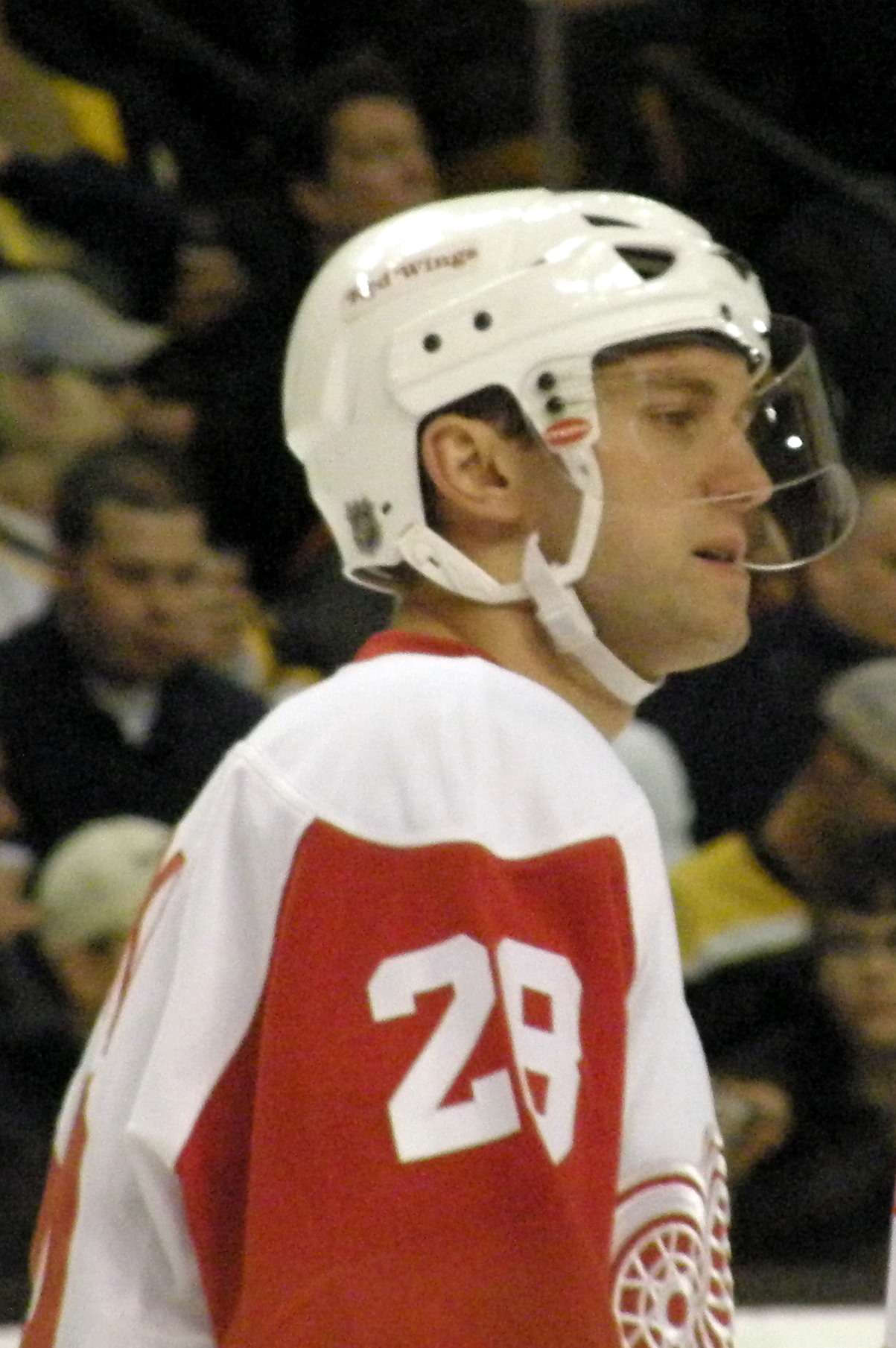 Brian Rafalski